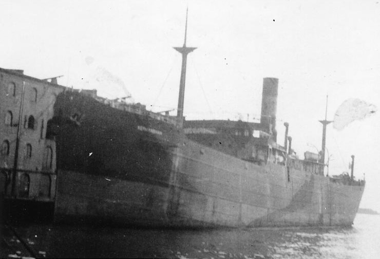 Commercial cargo ship SS Kermanshah, which later served in the US Navy as USS Kermanshah (ID-1473) from 1918 to 1919